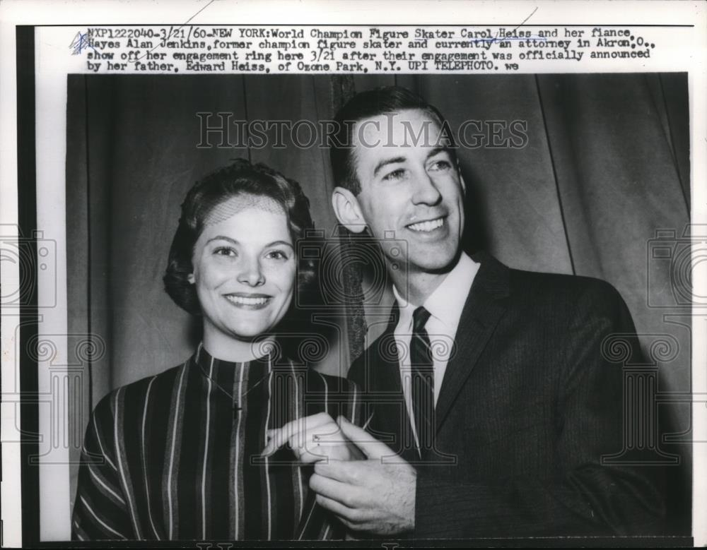 1960 Press Photo World skate champ Carol Heiss & Hayes Alan Jenkins engaged